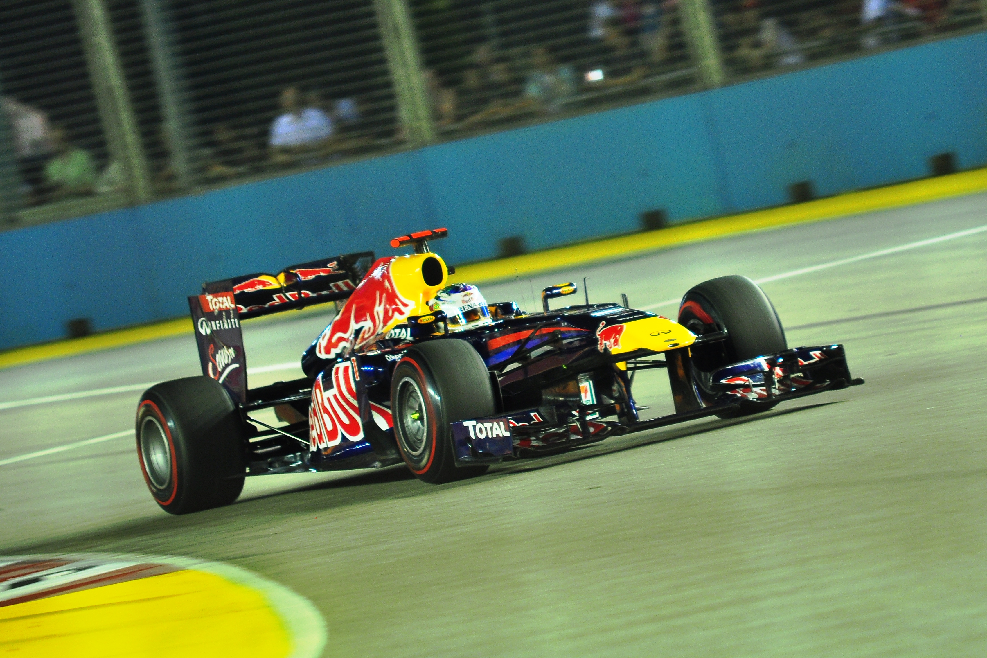 Sebastian Vettel for Red Bull Racing rounds turn 2 at the 2011 Fomula 1 Singtel Singapore Grand Prix held at the Marina Bay Street Circuit.